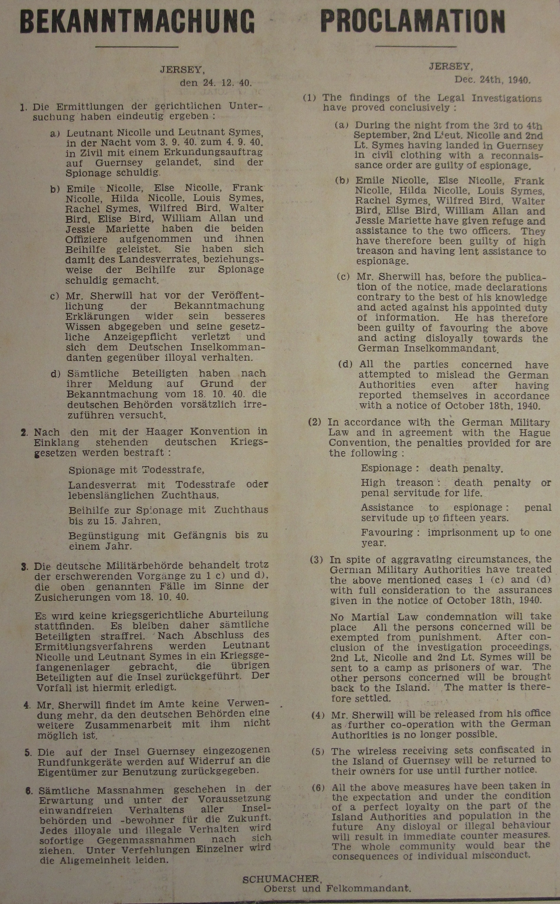 German decree from Occupation of Jersey This image is in the public domain according to German copyright law because it is part of a statute, ordinance, official decree or judgment (official work) issued by a German authority or court (§ 5 Abs.1 UrhG).